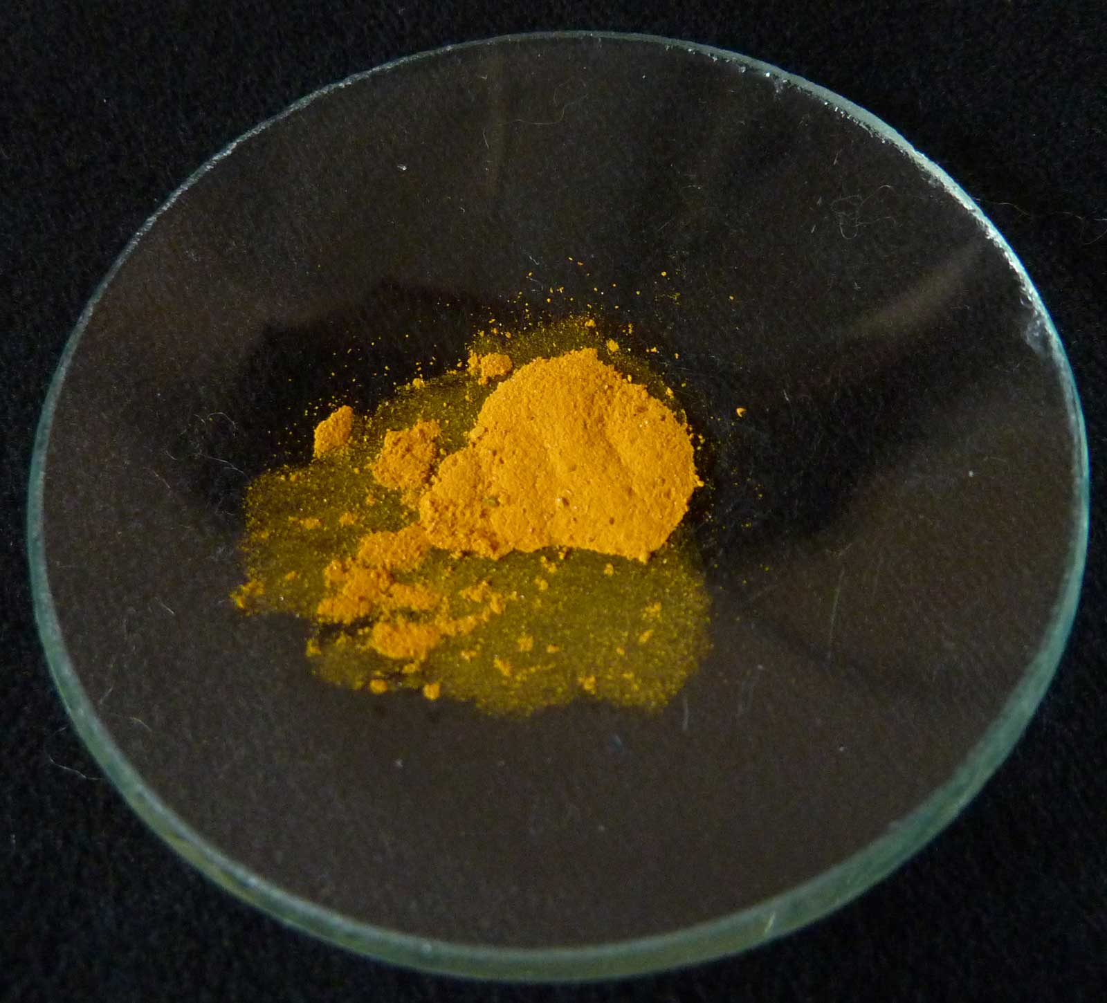 A sample of perylene